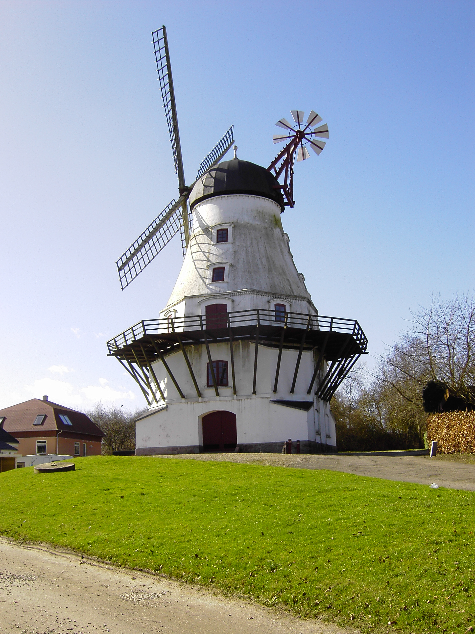 The Christian Mill of Svendborg